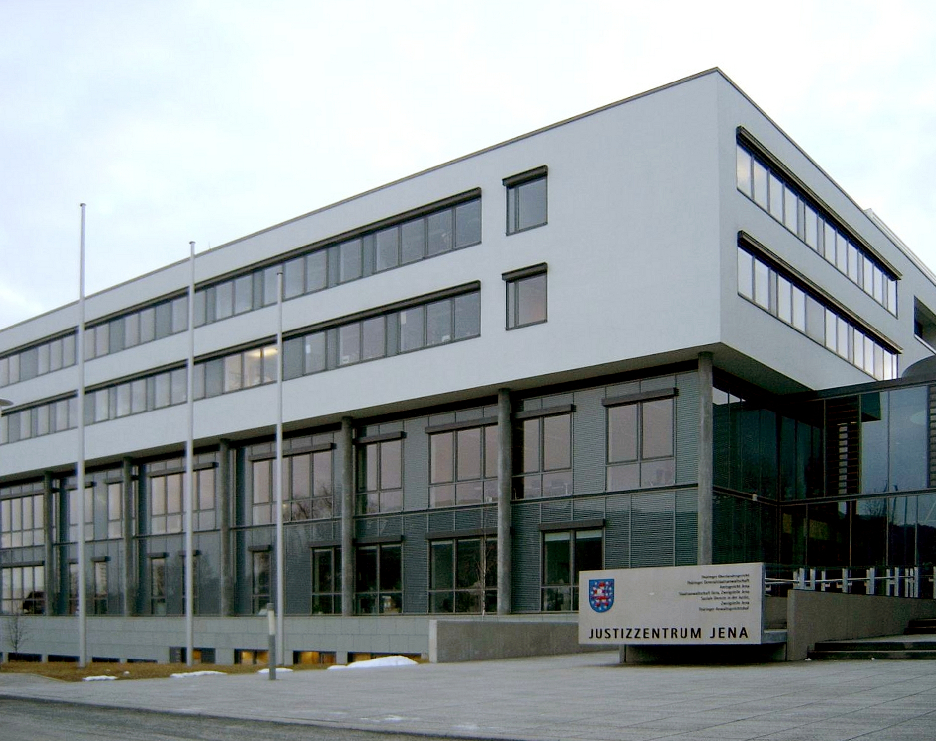 Jena, Thuringia